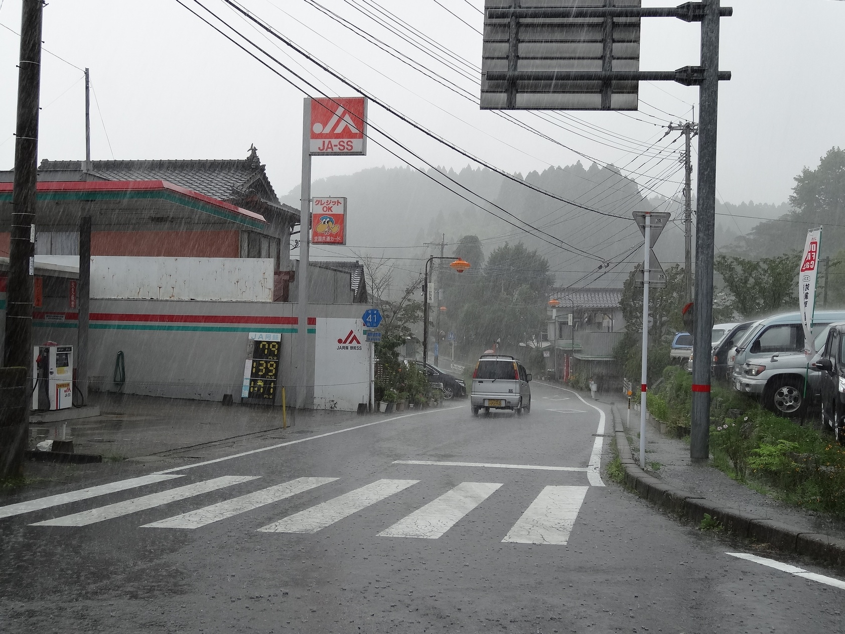 Kumamoto Prefectural Road No.41 Origin (Tsuru, Takamori Town, Kumamoto, Japan)